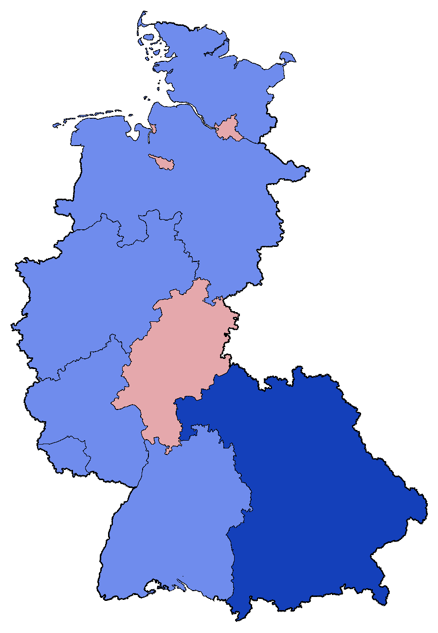 Electoral map showing the party list vote results (Zweitstimmen) of the 1961 and 1965 Bundestag (West German parliament) elections by state. Lighter blue denotes states where CDU/CSU had the plurality of votes; darker blue denotes states where CDU/CSU had the absolute majority of the votes; and pink denotes states where the SPD had the plurality of votes.